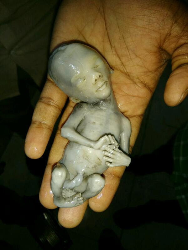 early stage aborted baby